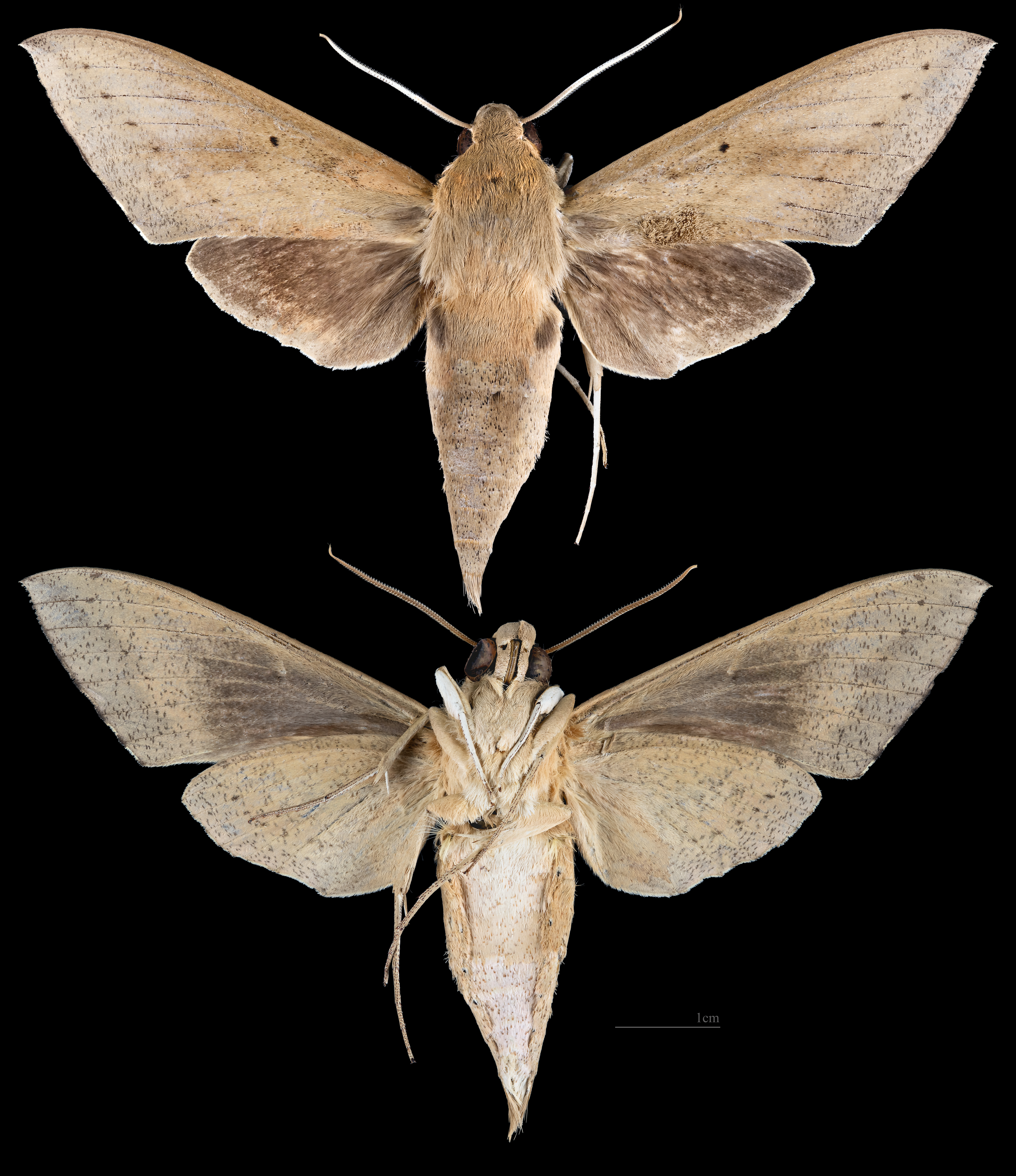 Theretra tryoni - Two views of same specimen Collection of the Mathematician Laurent Schwartz